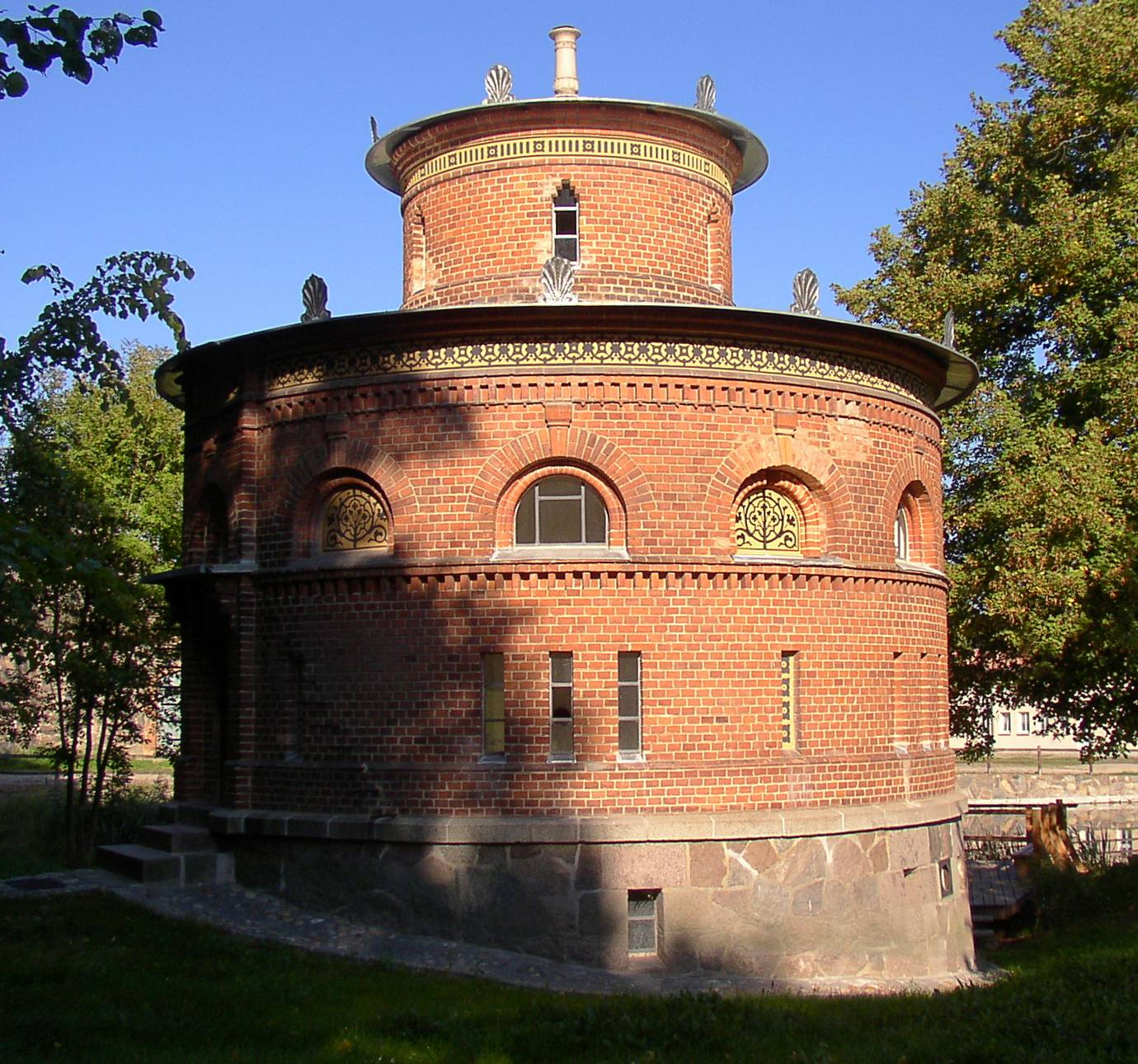 Dovecote in Schorssow-Bristow in Mecklenburg-Western Pomerania, Germany